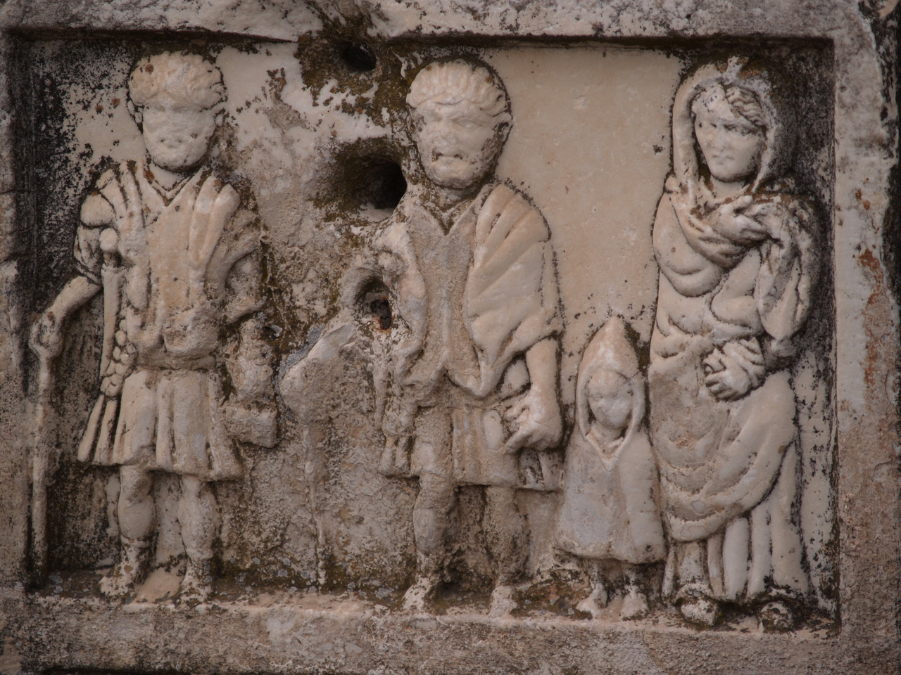 Roman city ruins Stobi, Macedonia